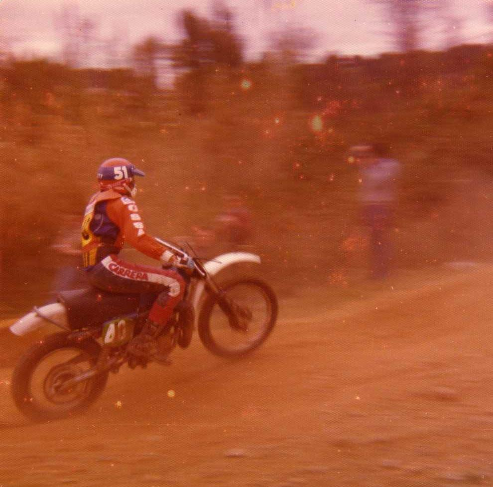 Marty Moates with his OSSA Phantom 250 cc at MX GP of Spain in Vallès Circuit (Catalonia) on April 3, 1977.